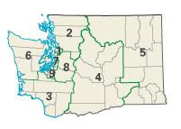 Image adapted from US fed gov't source found in Category:Congressional districts of Washington Category:Washington maps